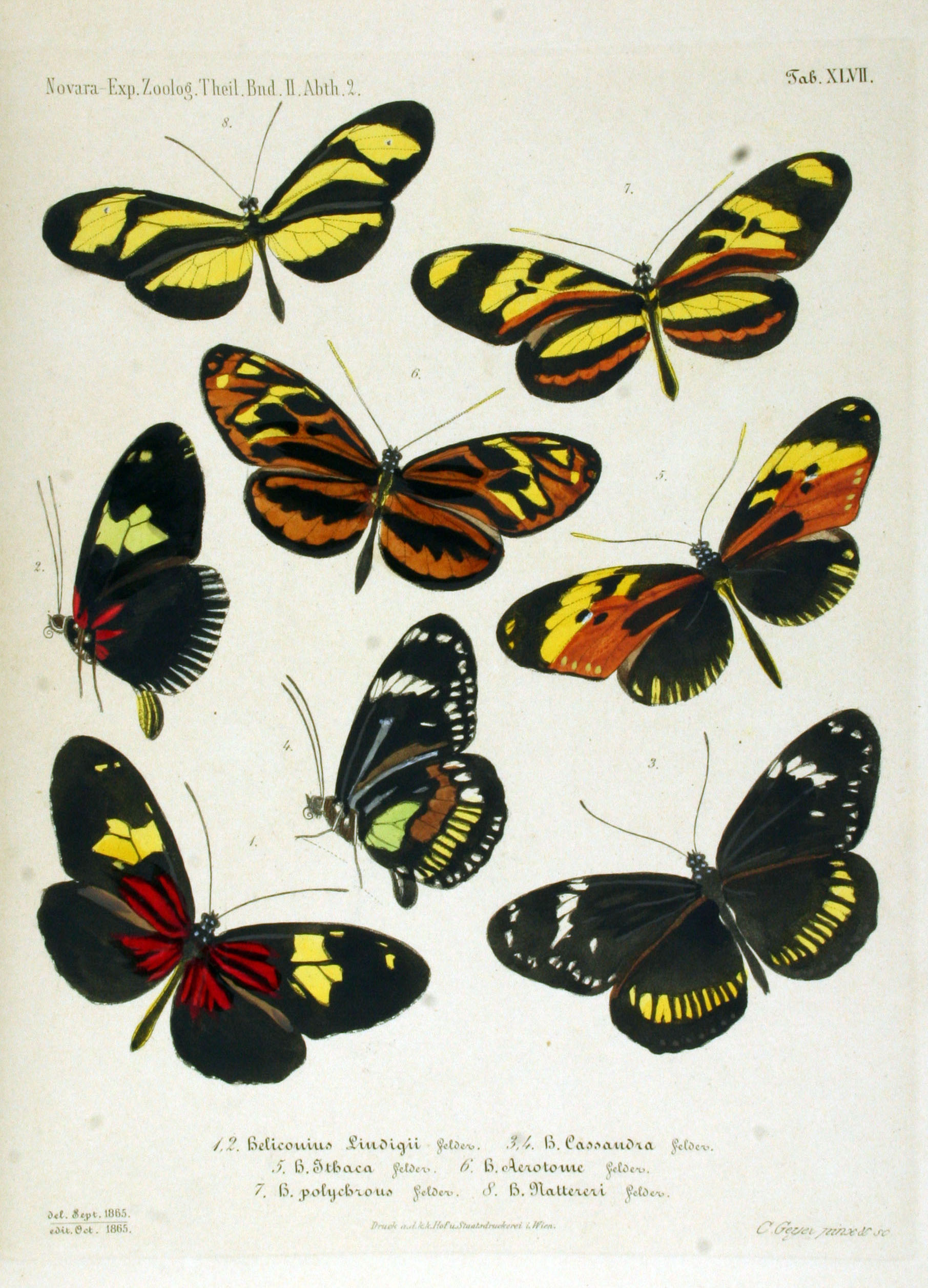 Reise der Österreichischen Fregatte Novara um die Erde in den Jahren 1857, 1858, 1859 unter den Befehlen des Commodore B. von Wüllerstorf-Urbair. (1864) Tafel XLVII. Heliconius lindigii C. & R. Felder, 1865 Subspecies of Heliconius burneyi (Hübner, [1831]) Heliconius cassandra C. & R. Felder, 1862 Subspecies of Heliconius hecuba Hewitson, [1858] Heliconius ithaca C. & R. Felder, 1862 Subspecies of Heliconius hecale (Fabricius, 1775) Heliconius aerotome C. & R. Felder, 1862 Subspecies of Heliconius ethilla Godart, 1819 Heliconius polychrous C. & R. Felder, [1865] Subspecies of Heliconius ethilla Godart, 1819 Heliconius nattereri C. & R. Felder, [1865]